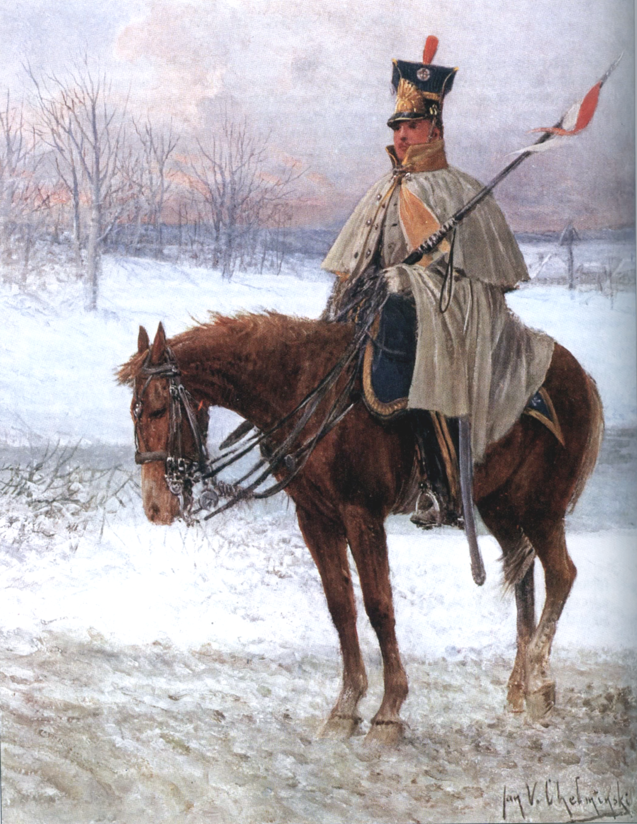 8e Régiment de Chevau-légers-lanciers (Légion de la Vistule)